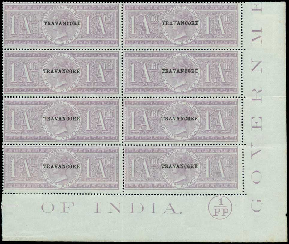 A block of 1 anna revenue stamps of India overprinted for use in Travancore state.